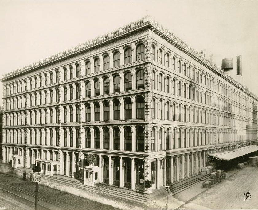 A. T. Stewart's Dry Goods Palace-Opening of the New Extension (New York Times, March 29, 1870) Fully complete after the 1870 extension, looking at the north-east corner of Broadway (uptown to the left) and 9th Street (east to the right). Note the 9th Street loading dock.